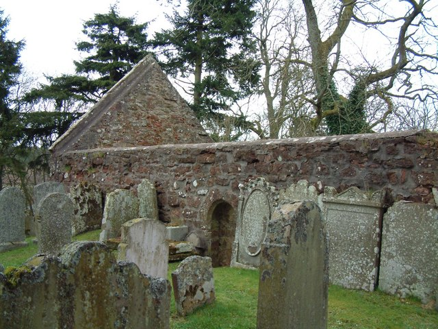 St Palladius Fordoun, Auchenblae, Aberdeenshire. This ruined chapel is next to the newer church. The medieval chapel was dedicated to St Palladius, who was said to have visited the site in the 5th century.